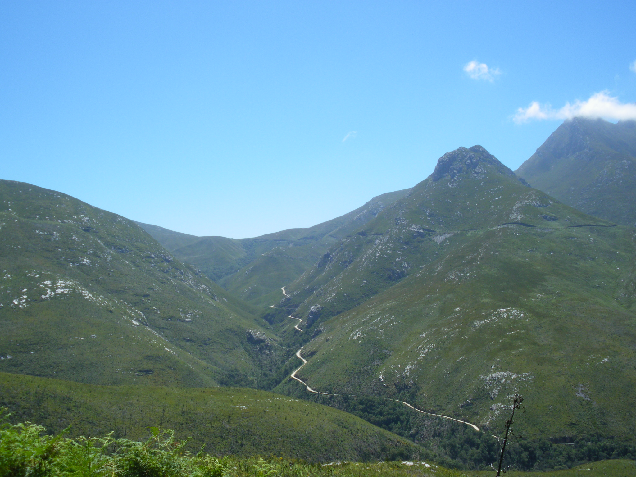 View over the Montagu Pass, cuttings of railway line visible on upper slopes